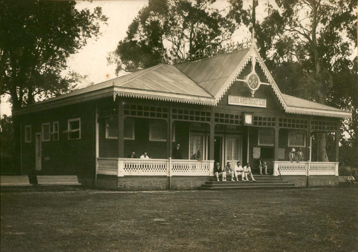 The Buenos Aires Aires Cricket Club's game field, located in Palermo neighborhood of Buenos Aires. The first association football (1867) and rugby union (1873) matches in Argentina were played there. The field was shared by BACC and Buenos Aires Football Club until 1951, when a fire destroyed it completely. The photo was later published in Autoclub magazine in 1981.